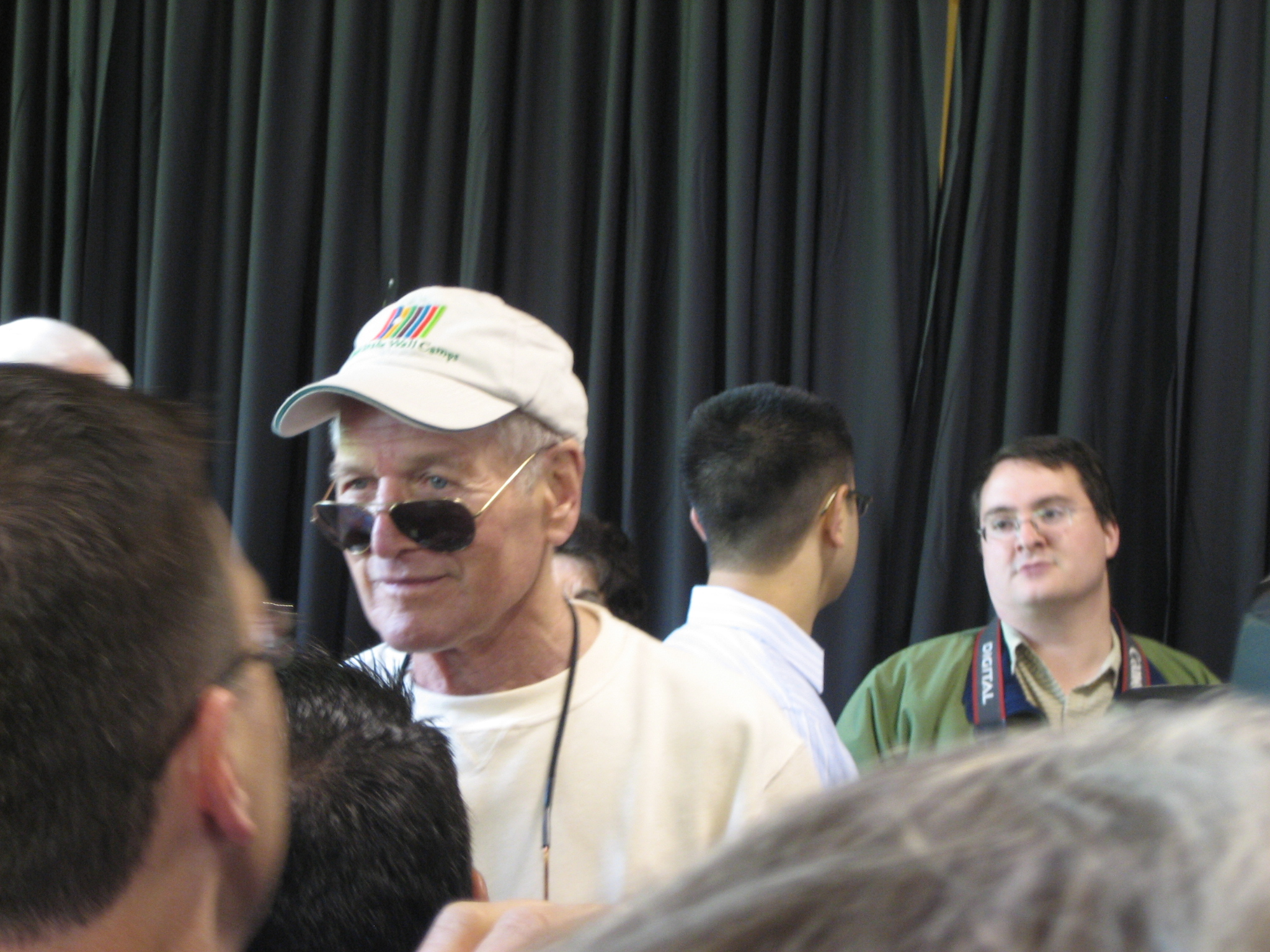 Paul Newman visiting Carnation, Washington in June 2007